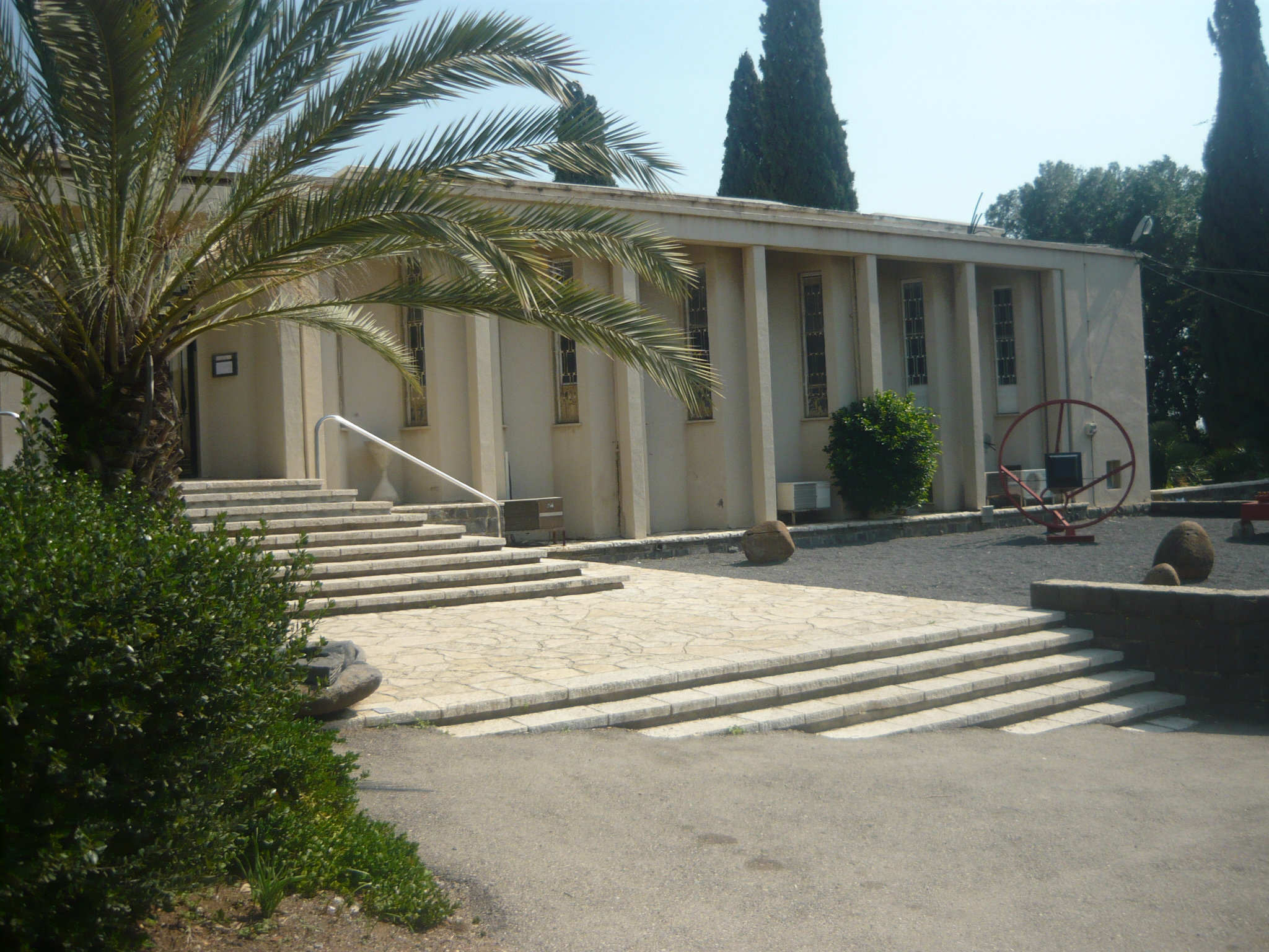 Eyn Harod art house, Israel המשכן לאומנויות בעין חרוד